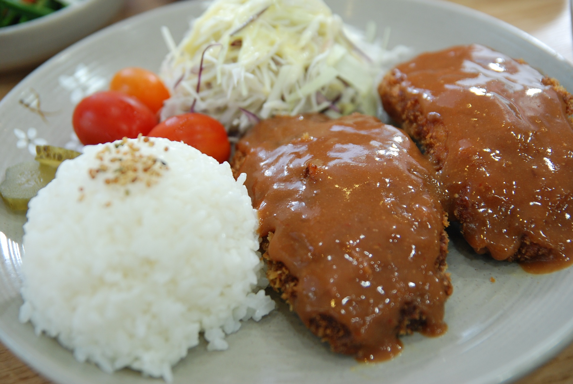 dongaseu (pork cutlet)